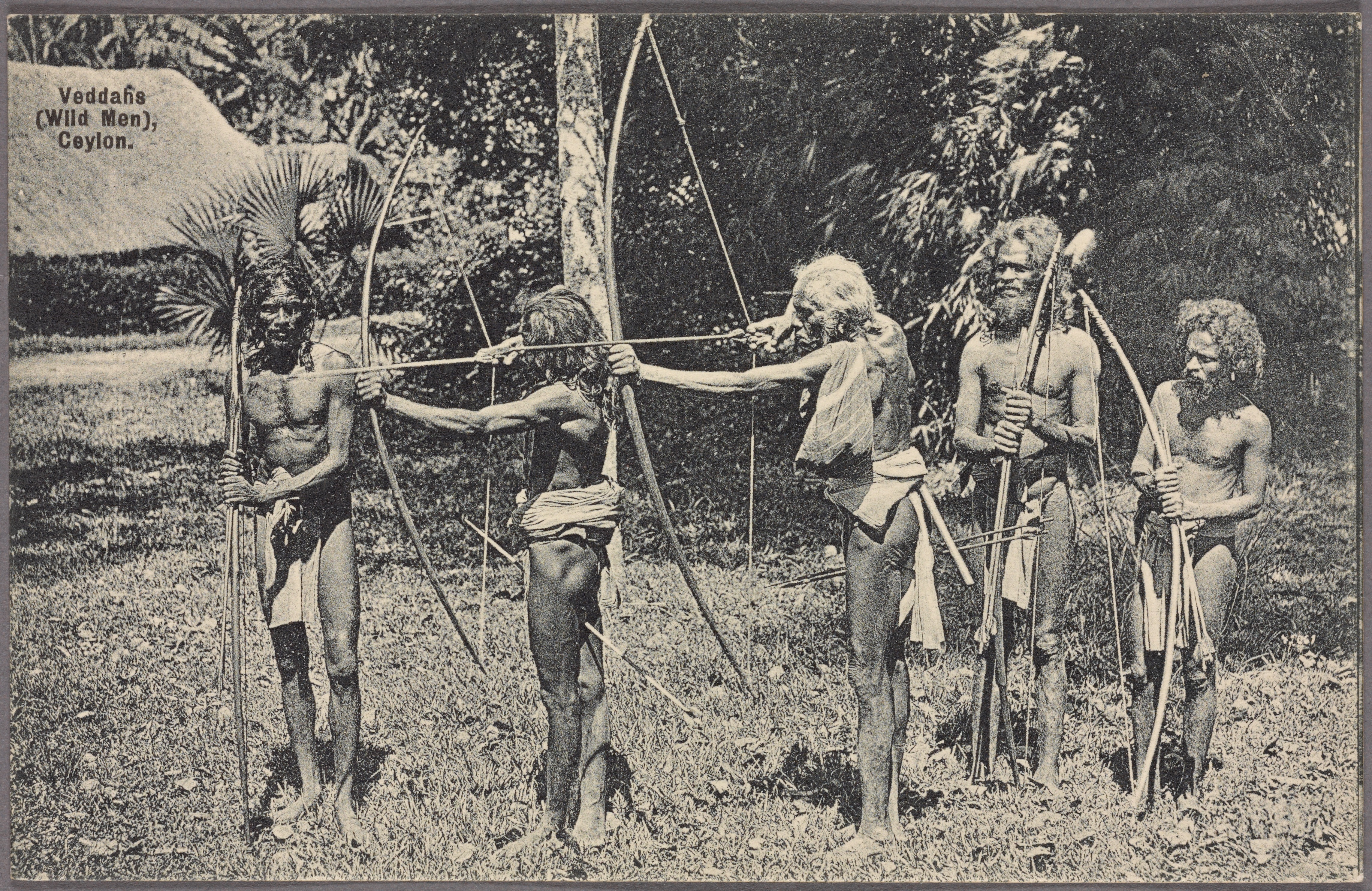 Veddahs (wild men), Ceylon.